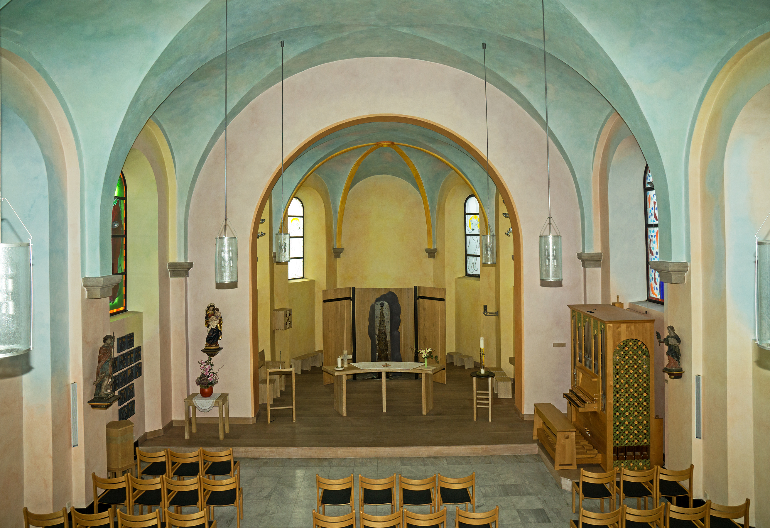 Church of Insenborn